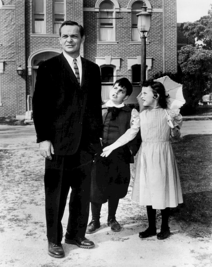 Photo of James Daly from The Twilight Zone episode "A Stop at Willoughby".